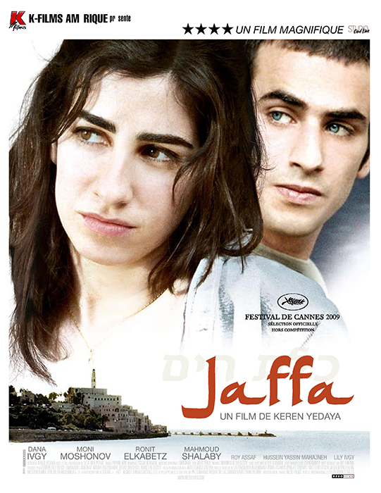 Poster of the movie Jaffa (Q820754)